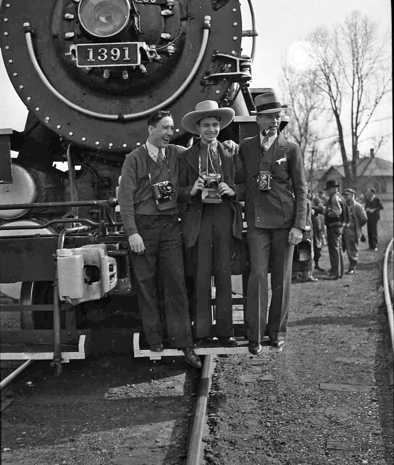 Railfans on a 1939 camera excursion train. This photo may have been taken in Thurston, Ohio where there was a Y. Our train turned around and went in reverse all the way to the power plant at Philo.